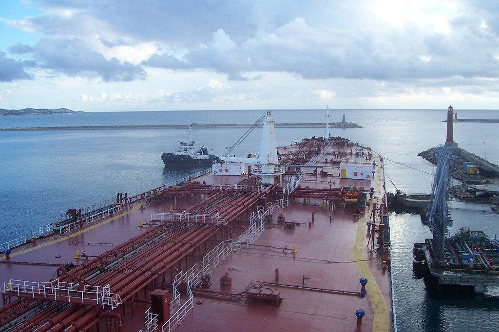 Super Tanker (250 meters) accosted in Bizerte's harbour, north of Tunisia